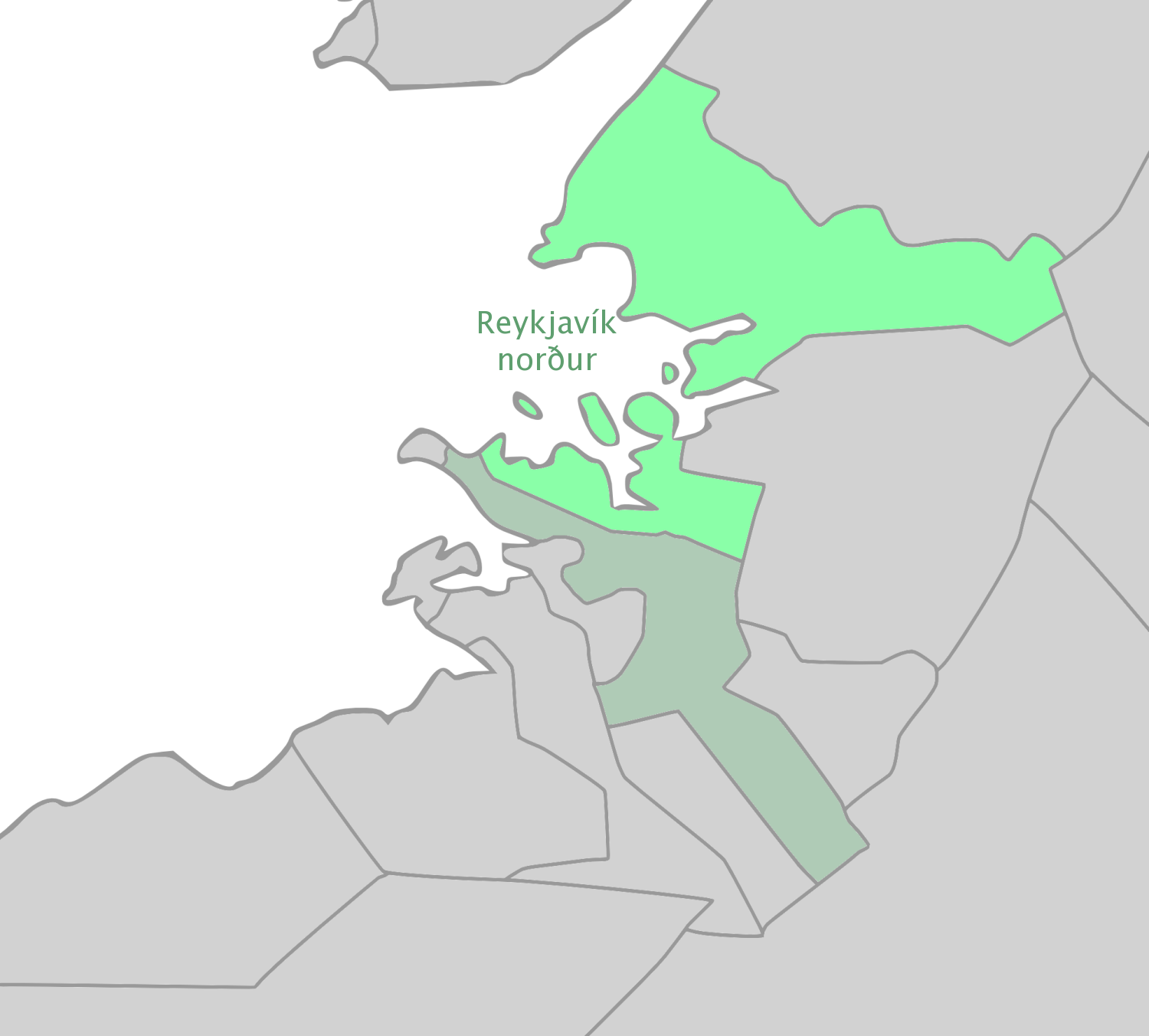 A map of the Reykjavík North electoral district in Iceland.